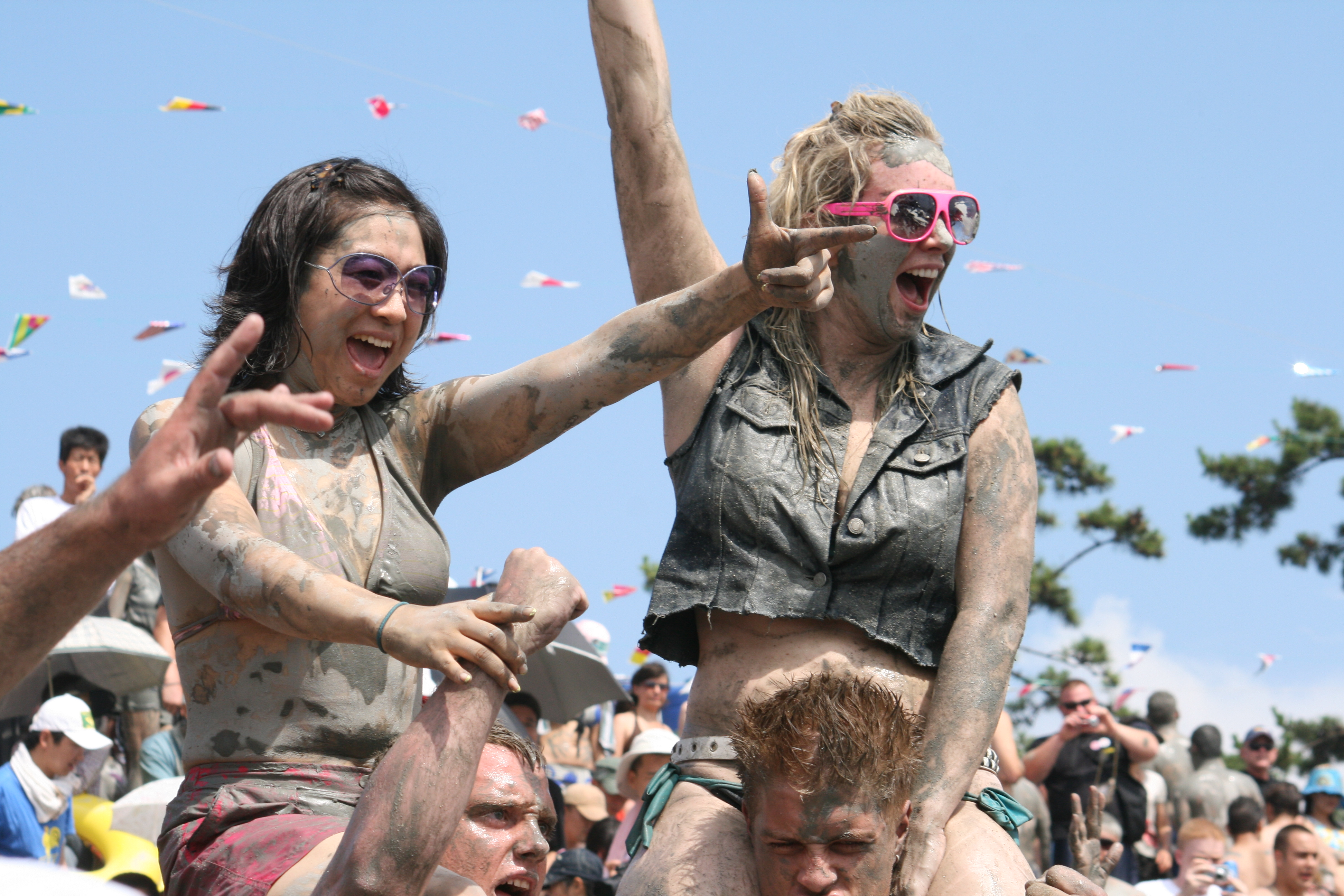 Korea-Boryeong Mud Festival